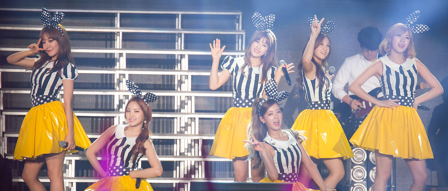 Apink at Pink Paradise concert, 30 May 2015. Left to right: Nam-joo, Na-eun, Cho-rong, Bo-mi, Eun-ji and Ha-young